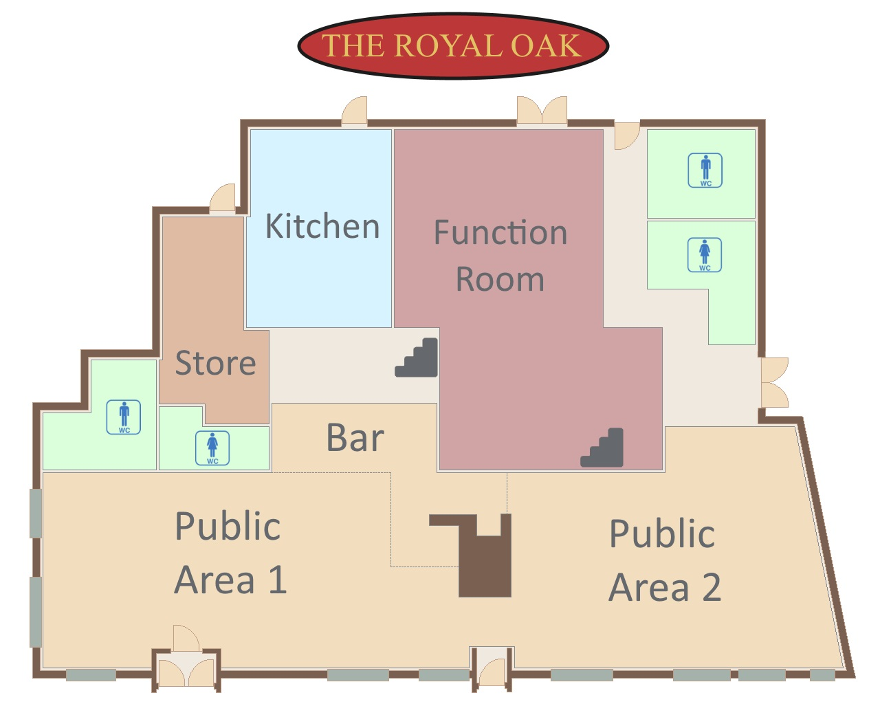 Layout of the Royal Oak pub in Findsbury. Based on layout images from Medway Council website